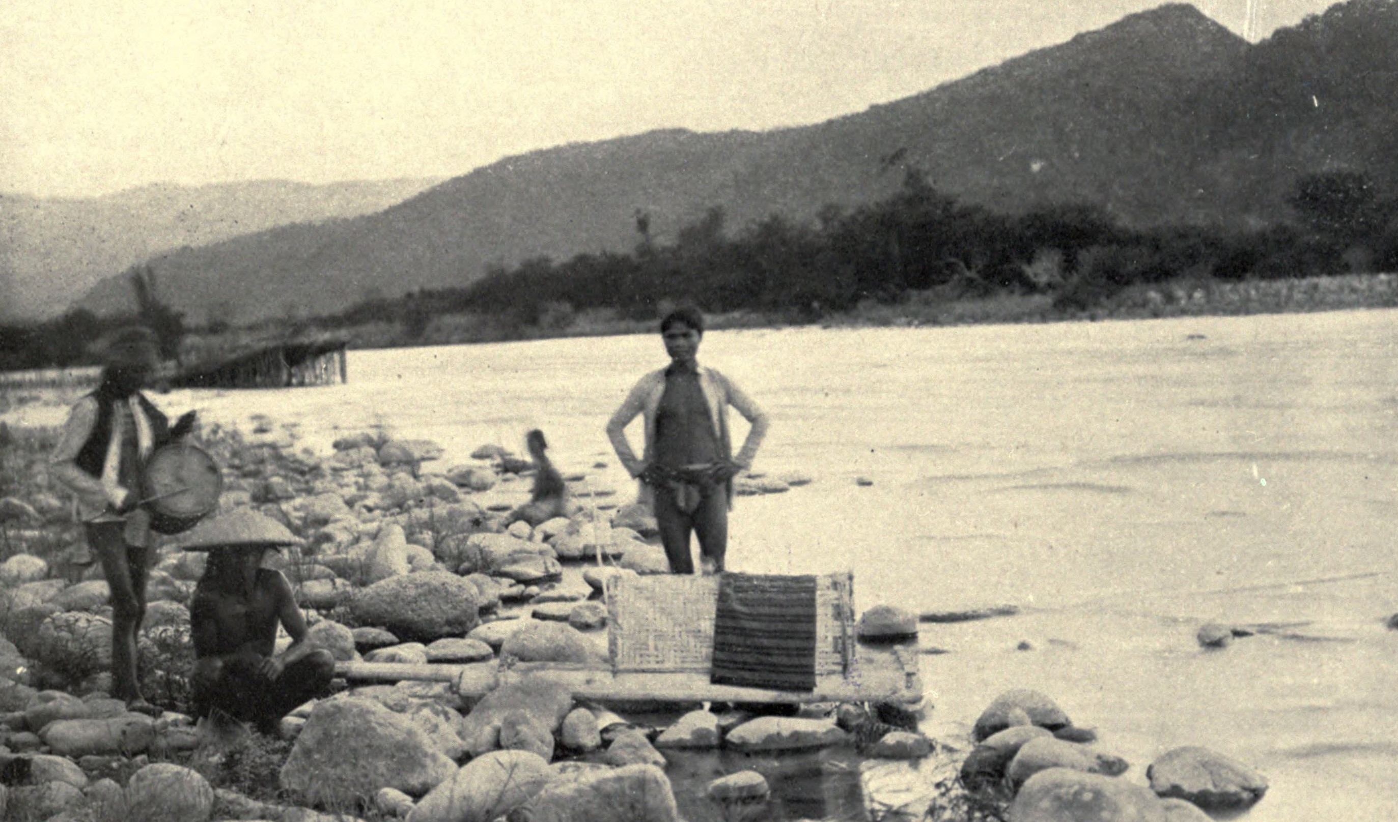 Itneg people launching spirit rafts bearing offerings for anito on a river (1922, Philippines)